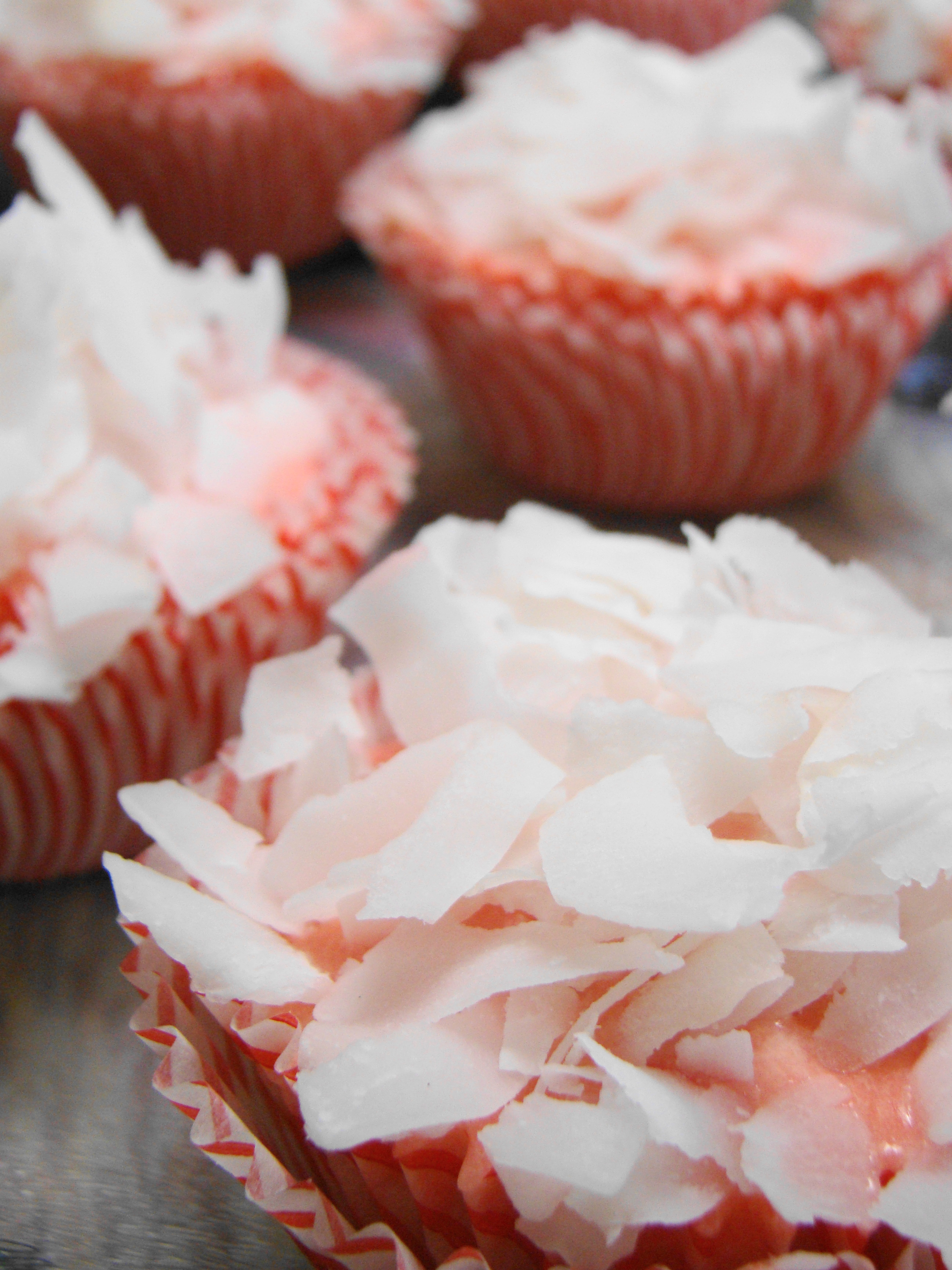 Bites of Strawberries inside with a creamy strawberry smear of buttercream and loaded with naturally fresh coconut.